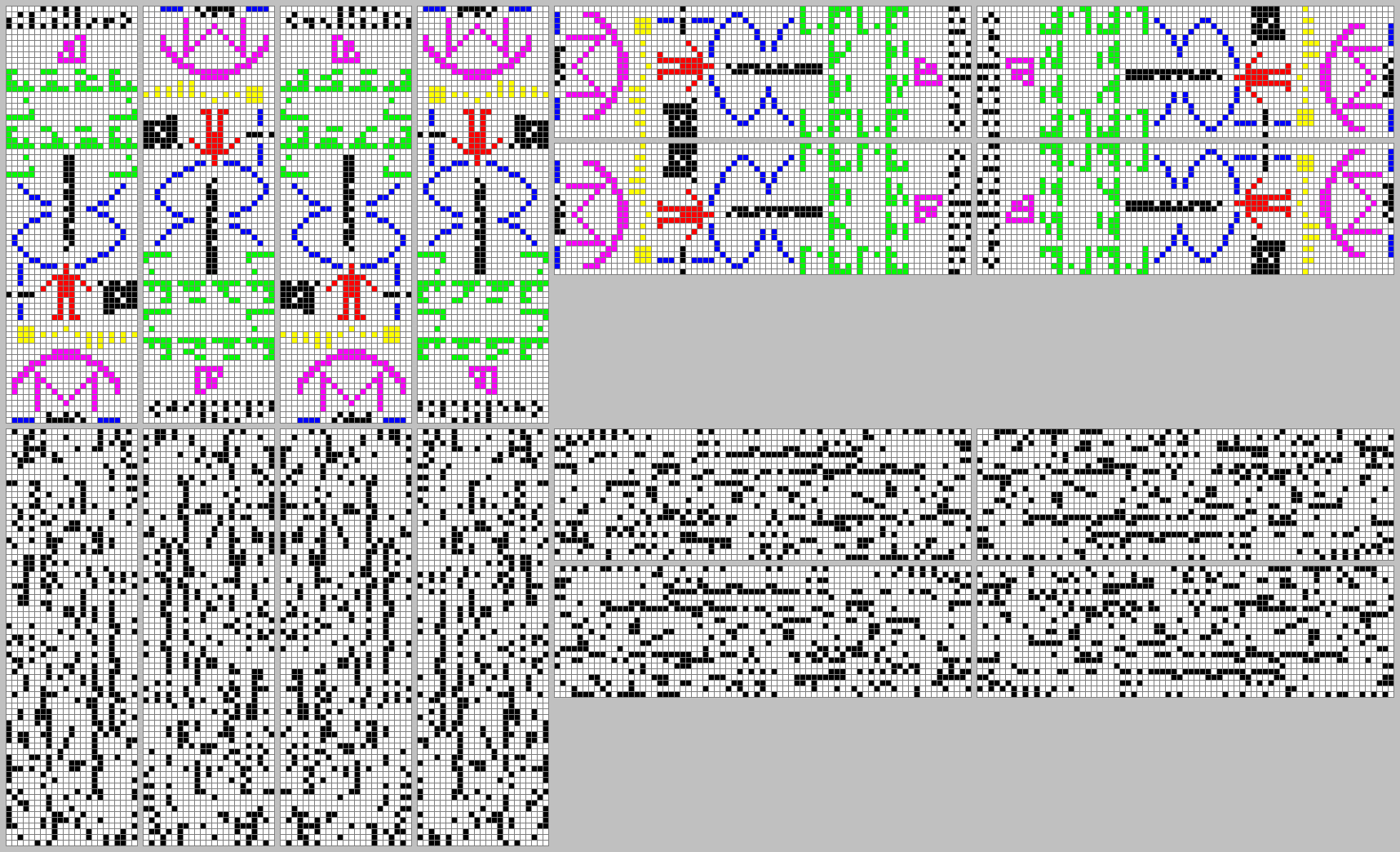 16 possibilities for decoding the Arecibo message. The eight in the top half of the image are the intended decoding and its reflections and/or rotations. The eight in the bottom half (with number of rows and columns swapped) are gibberish.